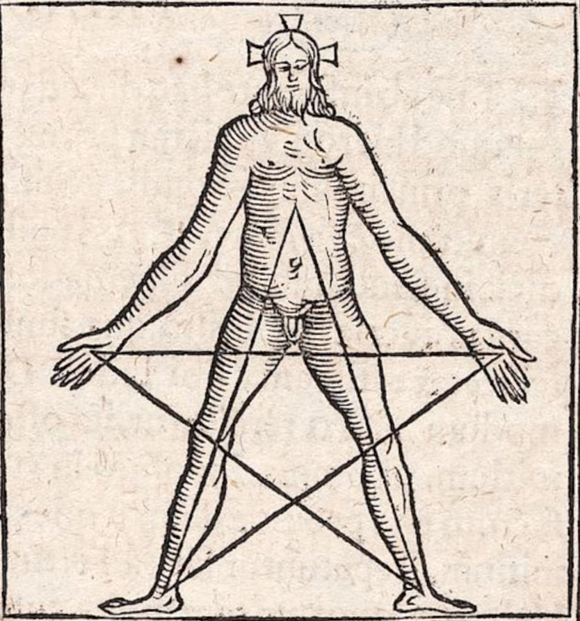 Joannis Pierii Valeriani ... Hieroglyphica, Sive De Sacris Aegyptiorum Aliarumque Gentium Literis, Commentariorum Libri LVIII. duobus aliis ab eruditissimo viro annexis — Frankfurt a.M., 1678